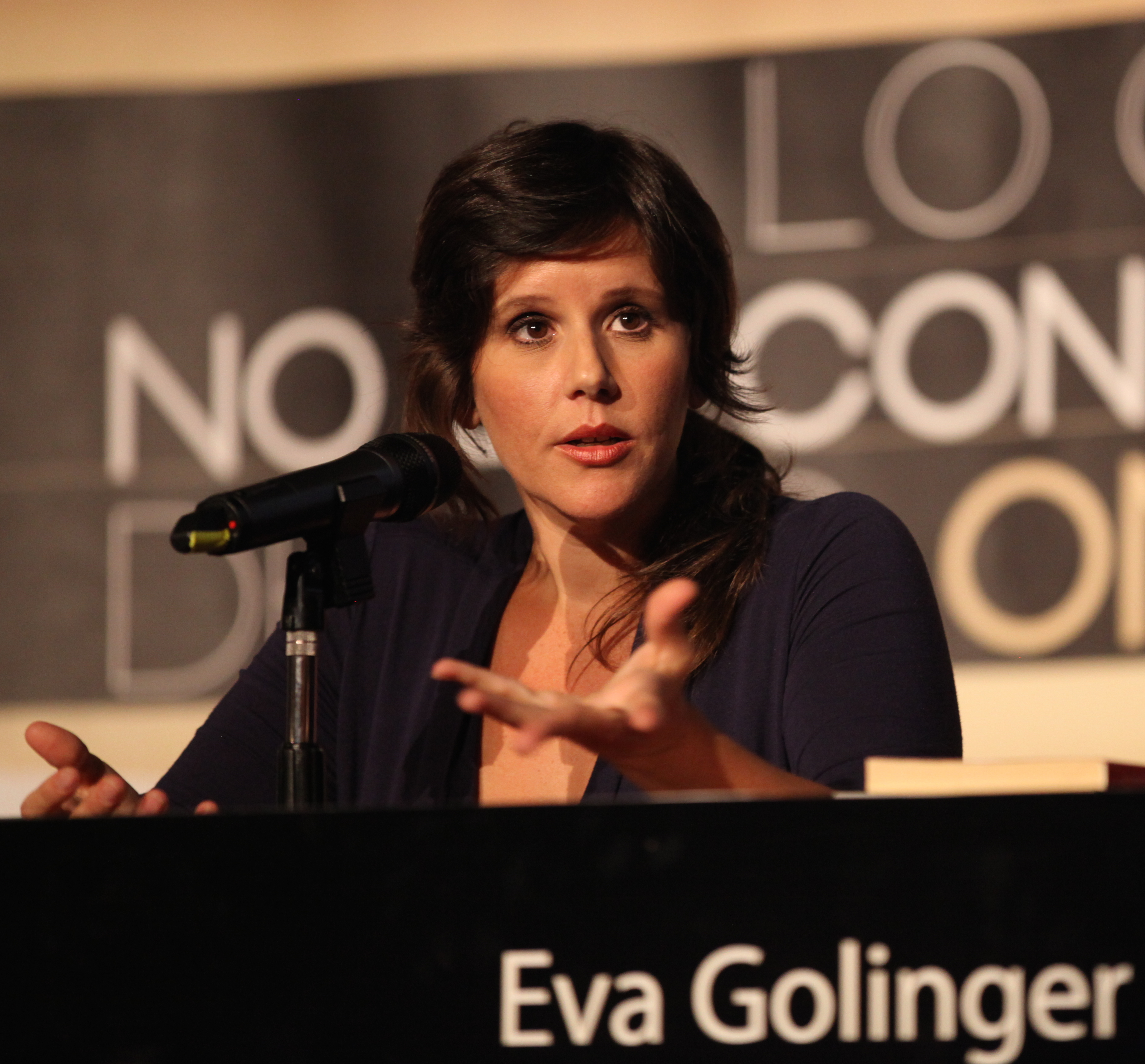 Eva Golinger at the ""Lo que no se conoce de las las ONG´s" gathering in 2012.